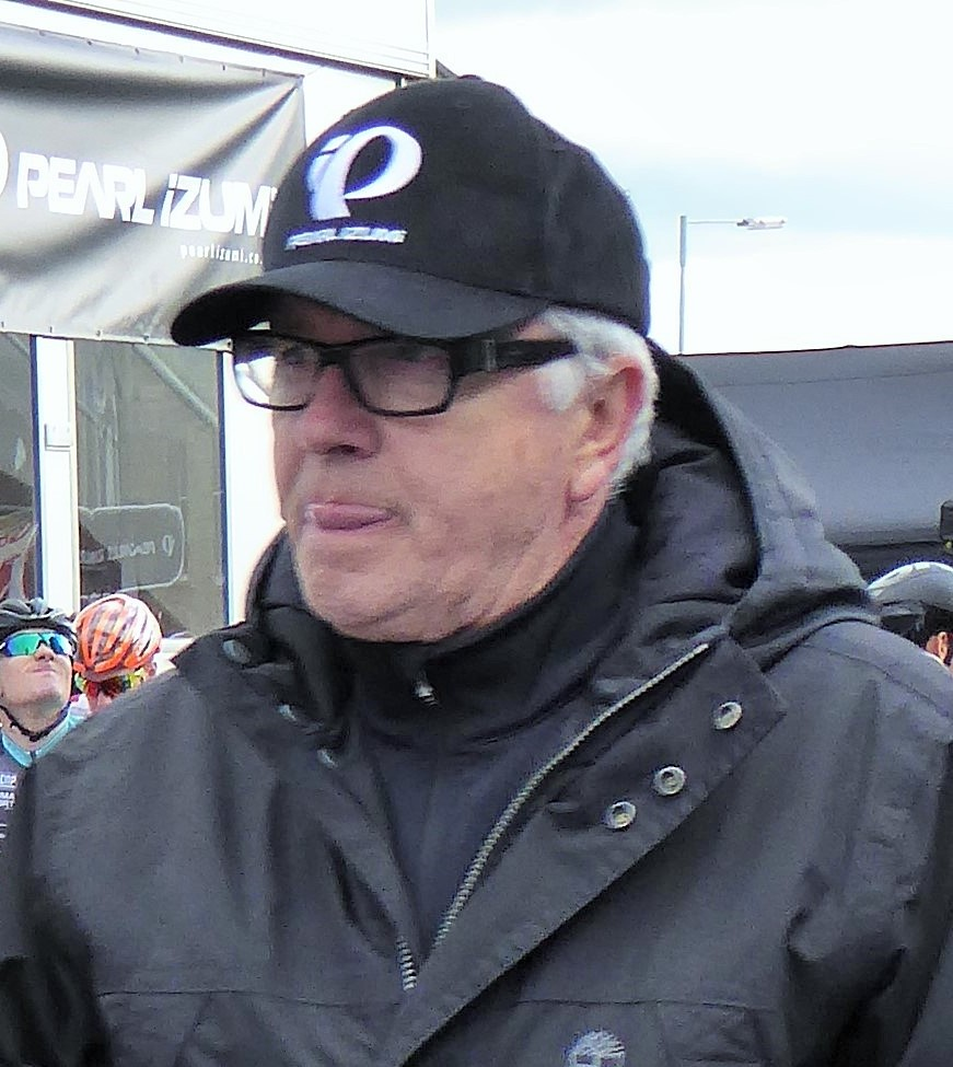 Mick Bennett, race director, pictured at Round 4 of the Pearl Izumi Tour Series in Motherwell on 26 May 2015. Depicted person: Michael Bennett